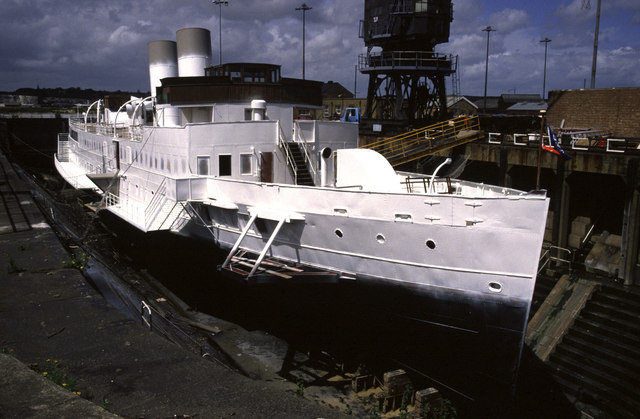 TS Queen Mary II, Chatham. Former Clyde steamer, previously moored on the Embankment in London, is seen here being prepared for her future static role at Chatham Historic Dockyard. She became Queen Mary II when a certain bigger vessel was launched. She is once again plain Queen Mary, with another ship now called QM2.